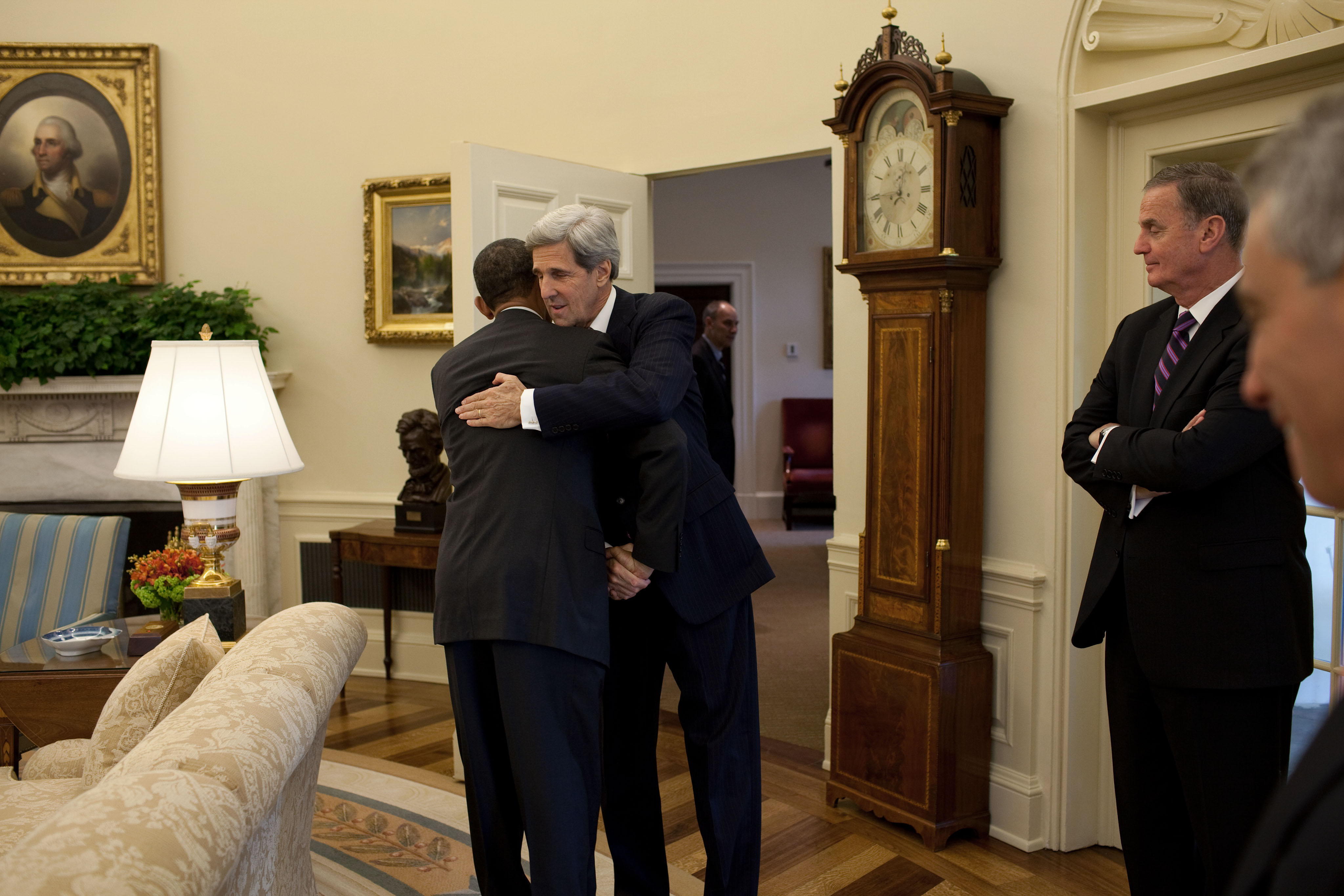 President Barack Obama hugs Sen. John Kerry (D-Mass.), who recently returned from Afghanistan, prior to their meeting in the Oval Office, Oct. 21, 2009.